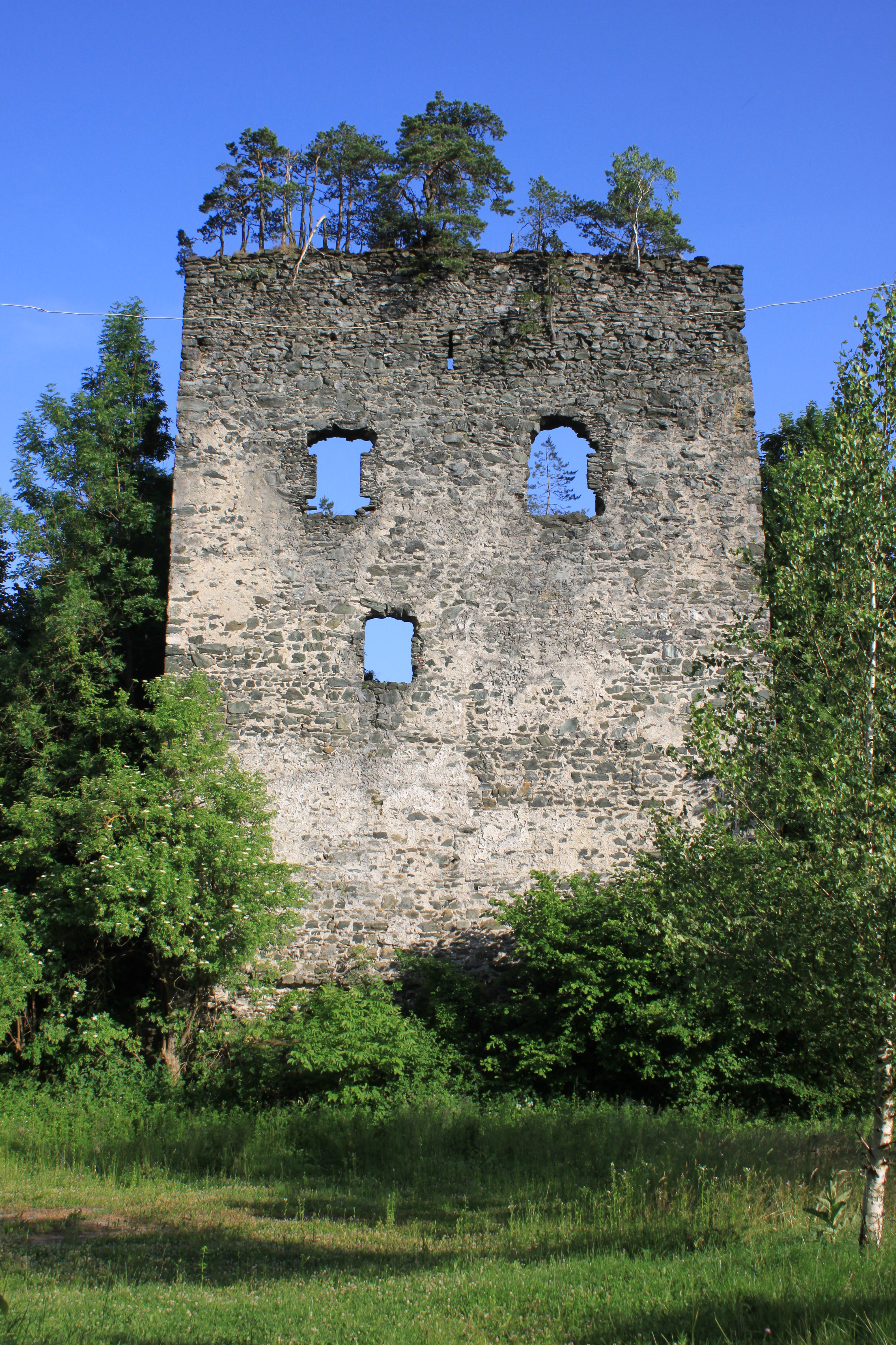 Castle ruined